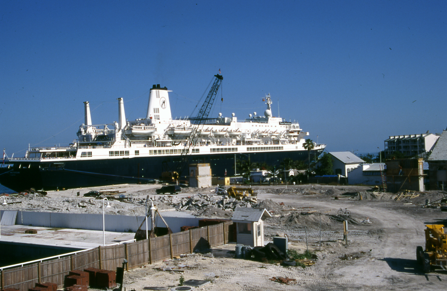 Cruise ship at pier B while hotel is under construction May 1995. Photo by Raymond L. Blazevic.